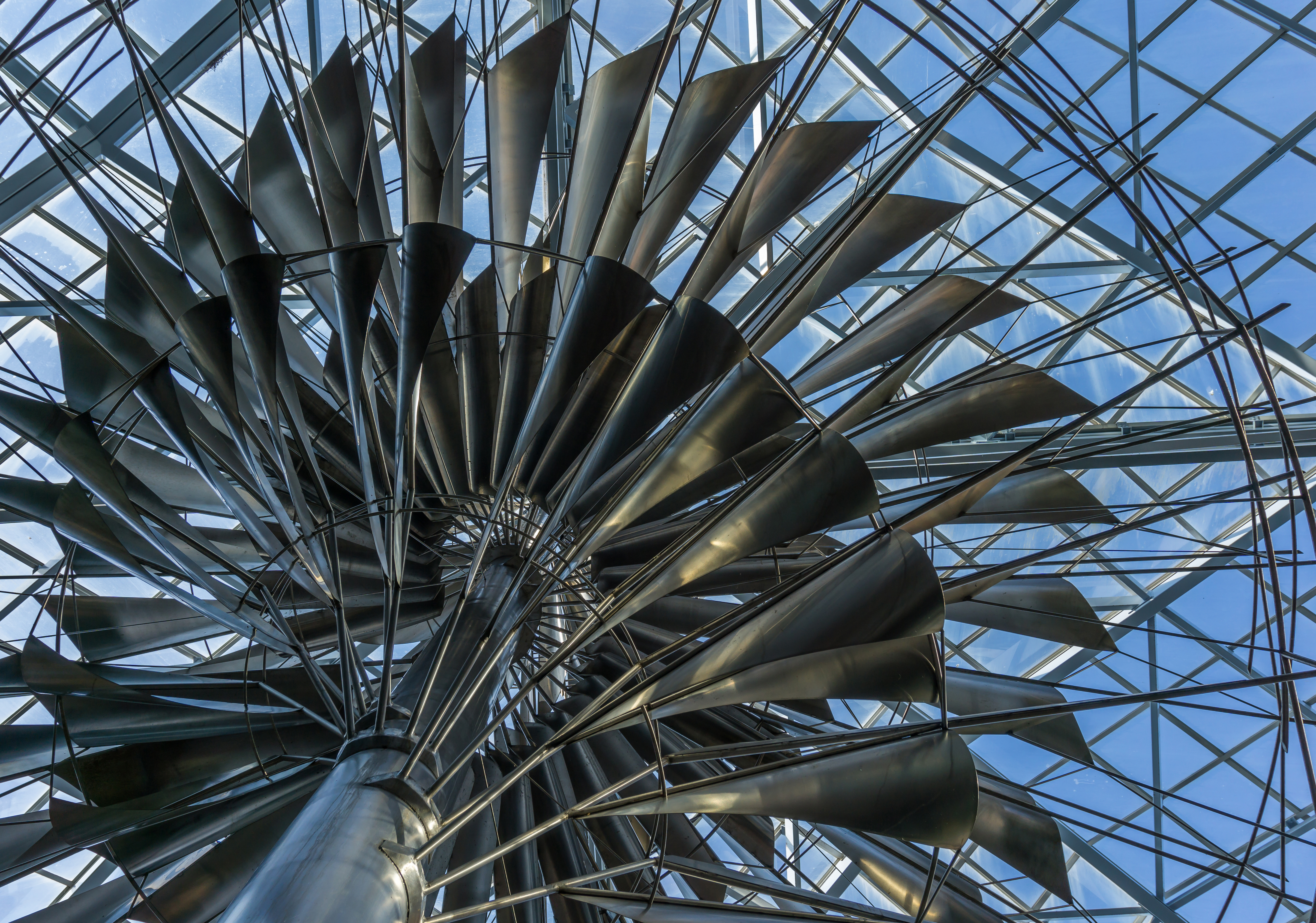 View from below of Dynamic Mobile Steel Sculpture, an abstract sculpture from 1979 by Canadian artist George Norris (1928-2013). The statue is located in a foyer of the Central Branch of the Great Victoria Public Library (between Broughton and Courtney St), Victoria, British Columbia, Canada